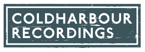 Logo of the electronic dance music label Coldharbour Recordings